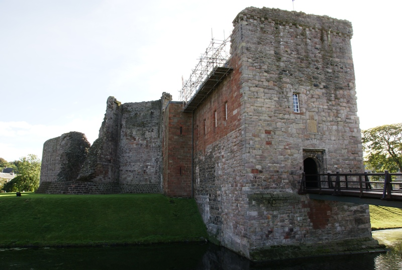 Rothesay Castle, Rothesay, Bute, Scotland. View from north north east. Entrance.